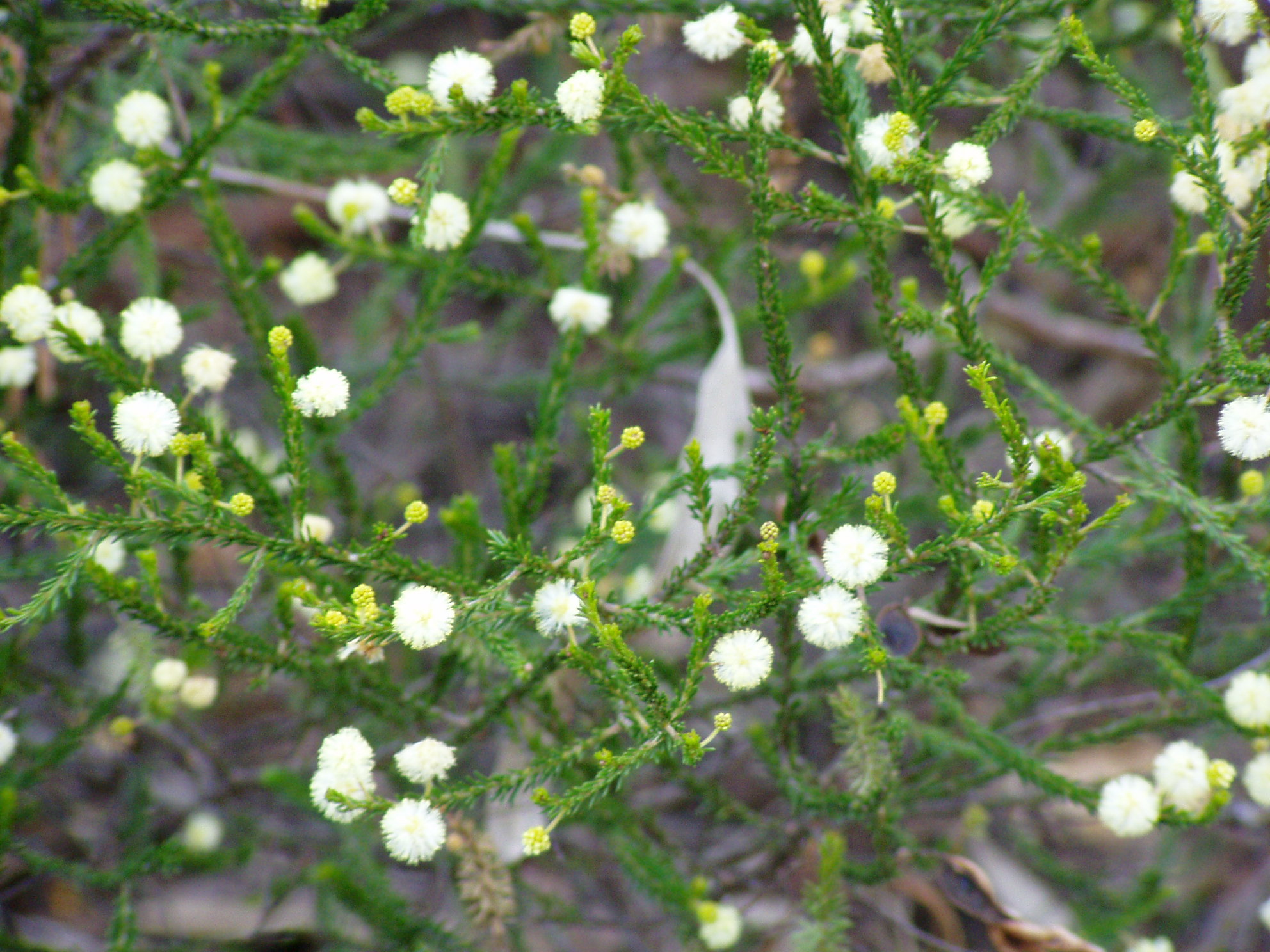 Description: Brown Wattle (Acacia brunioides) Location: Australian National Botanic Gardens, Canberra, Australian Capital Territory, Australia Date: 2005-09-21 Source: picture taken by Danielle Langlois Licence: Released under GFDL and Creative Commons licenses by the photographer